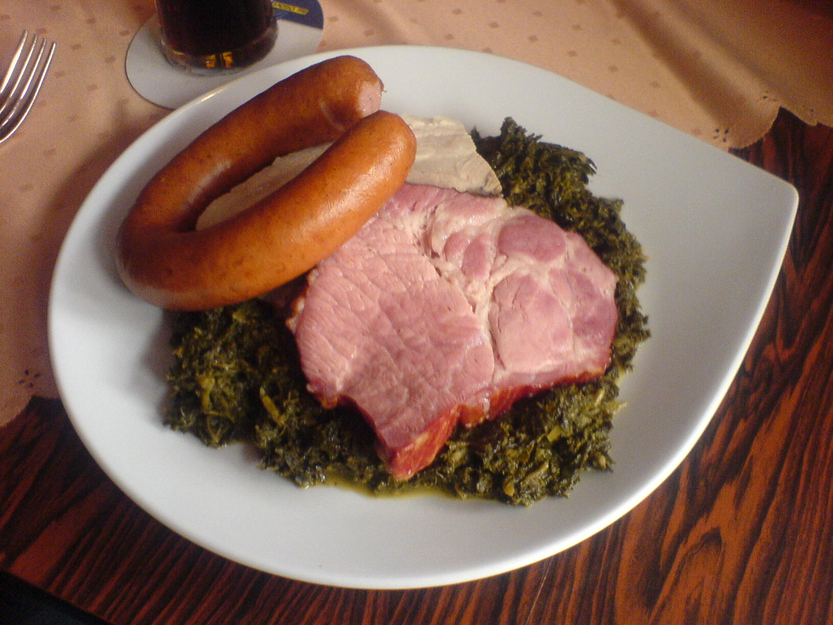 A typical Northwest-German Dish: Boiled Kale with Kassler meat and Mettwurst sausage